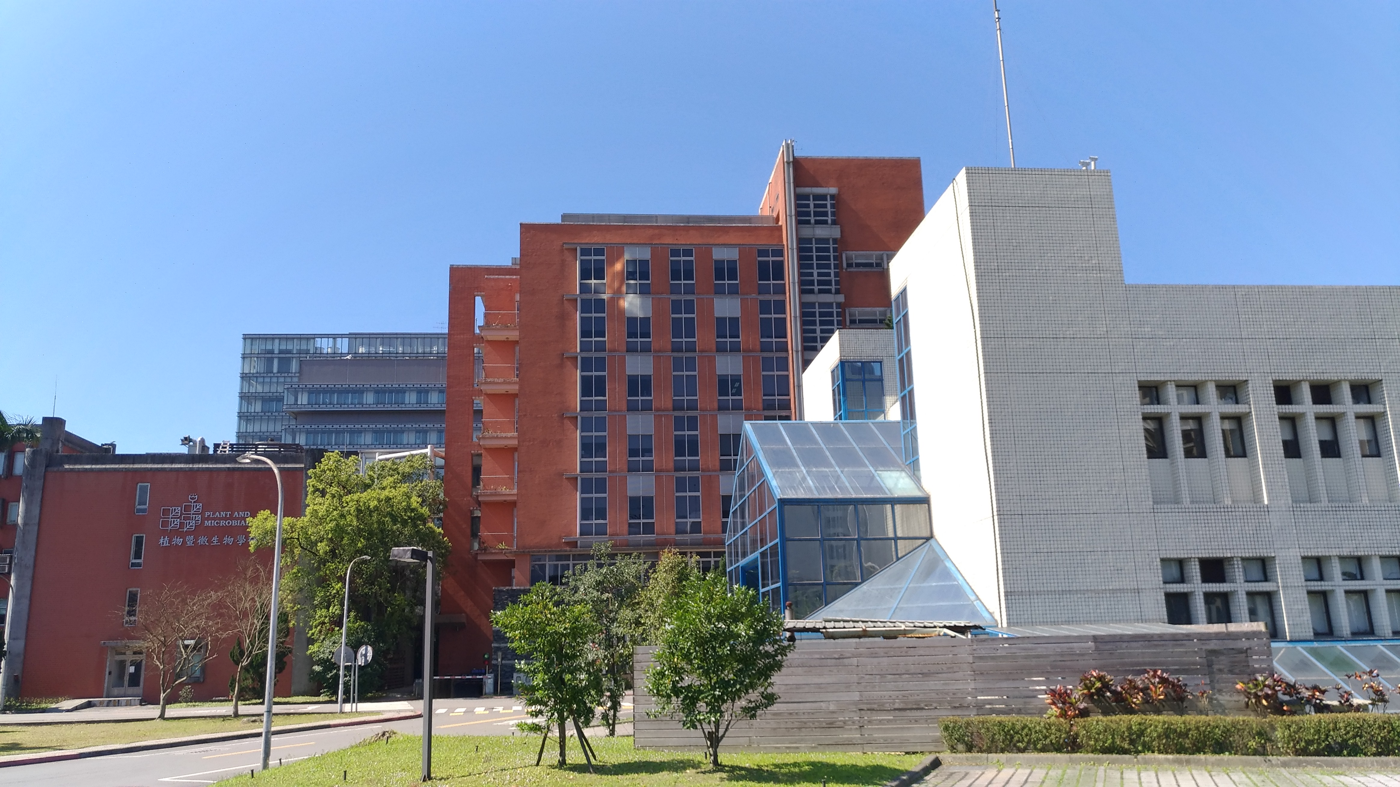 Institute of Plant and Microbial Biology and Agricultural Biotechnology Research Center